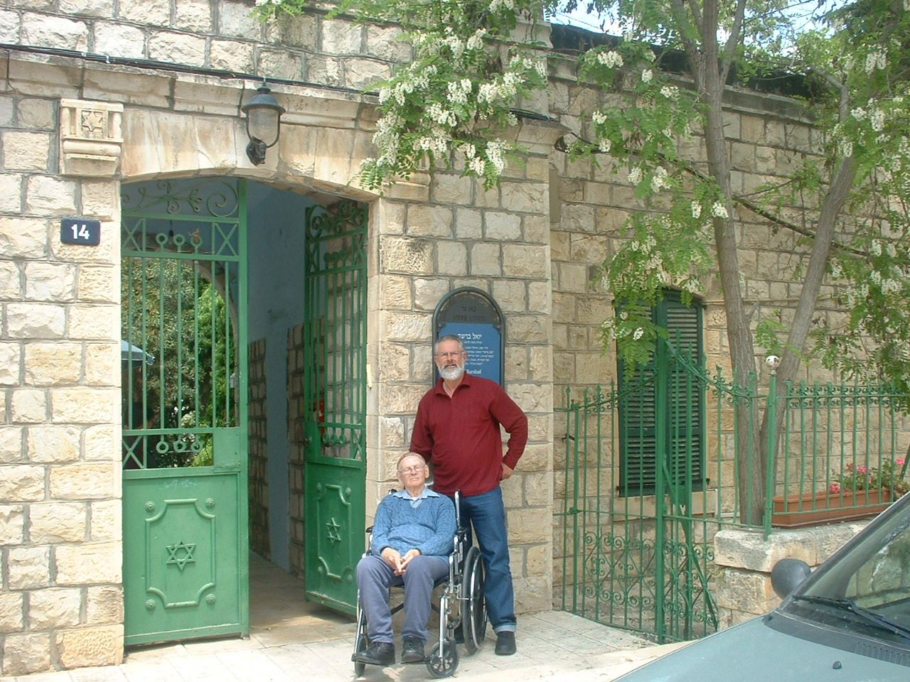 Rashad House